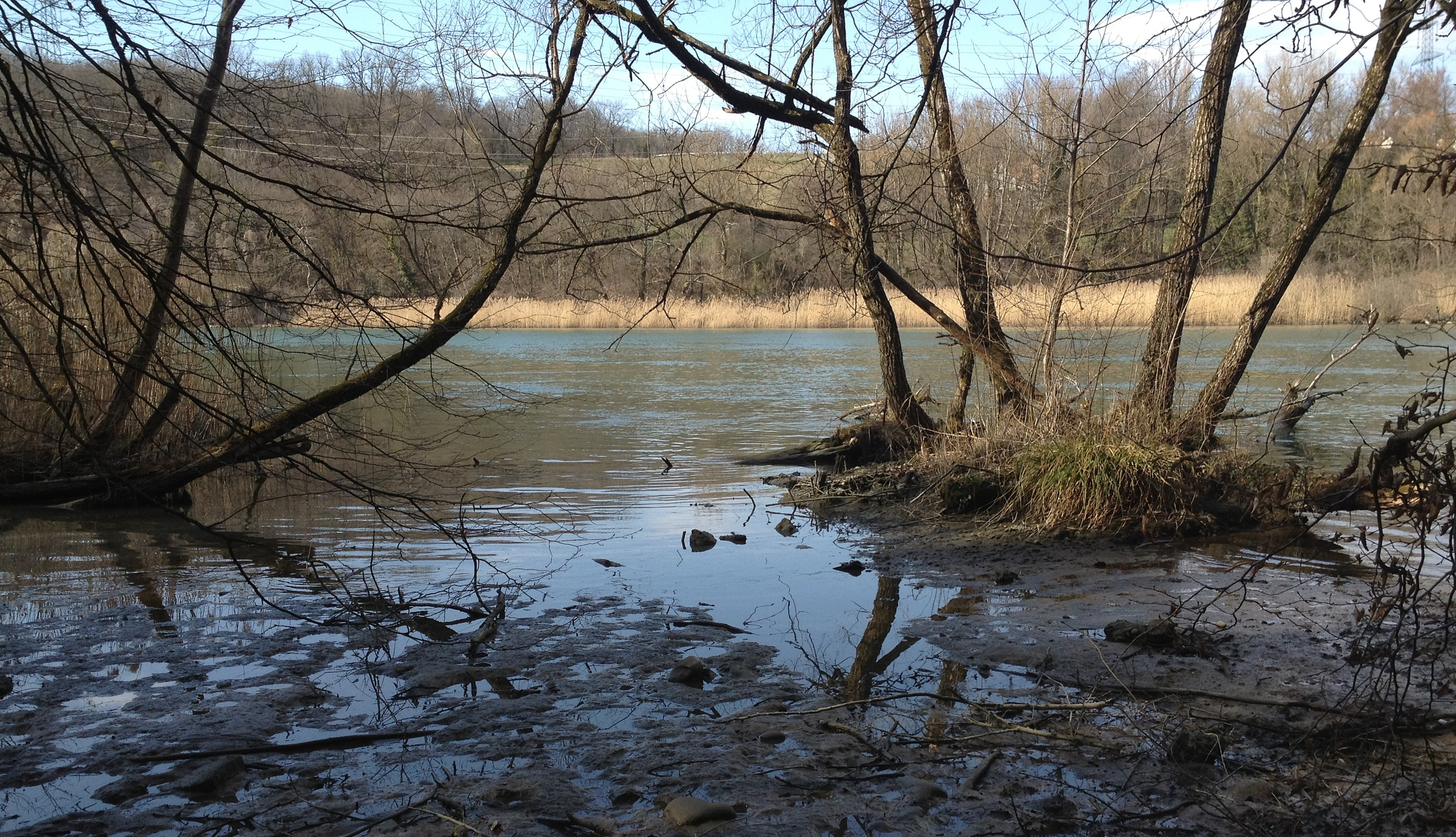 Rhone river near Geneva under influence of environmental projects